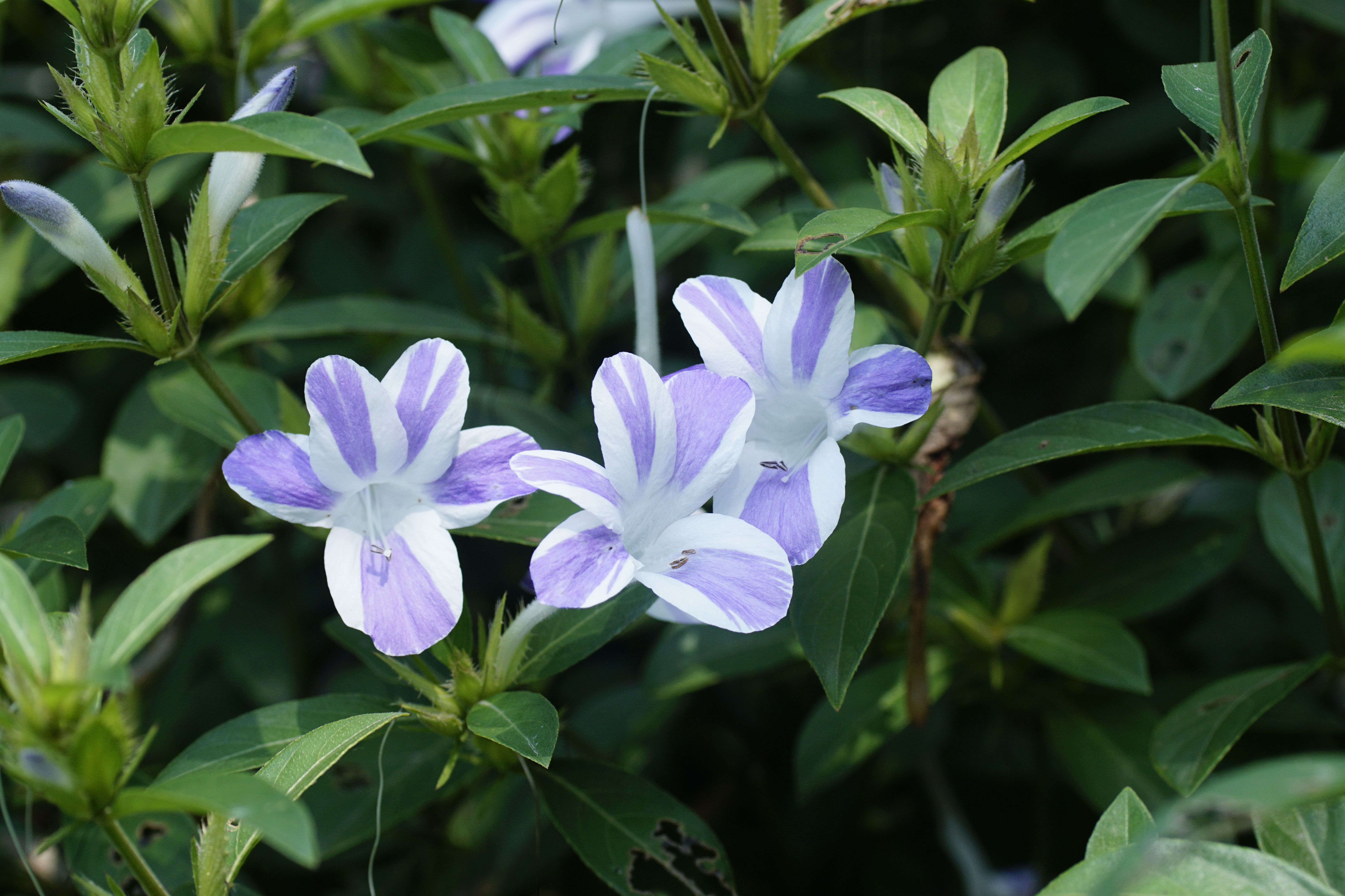 Barleria cristata